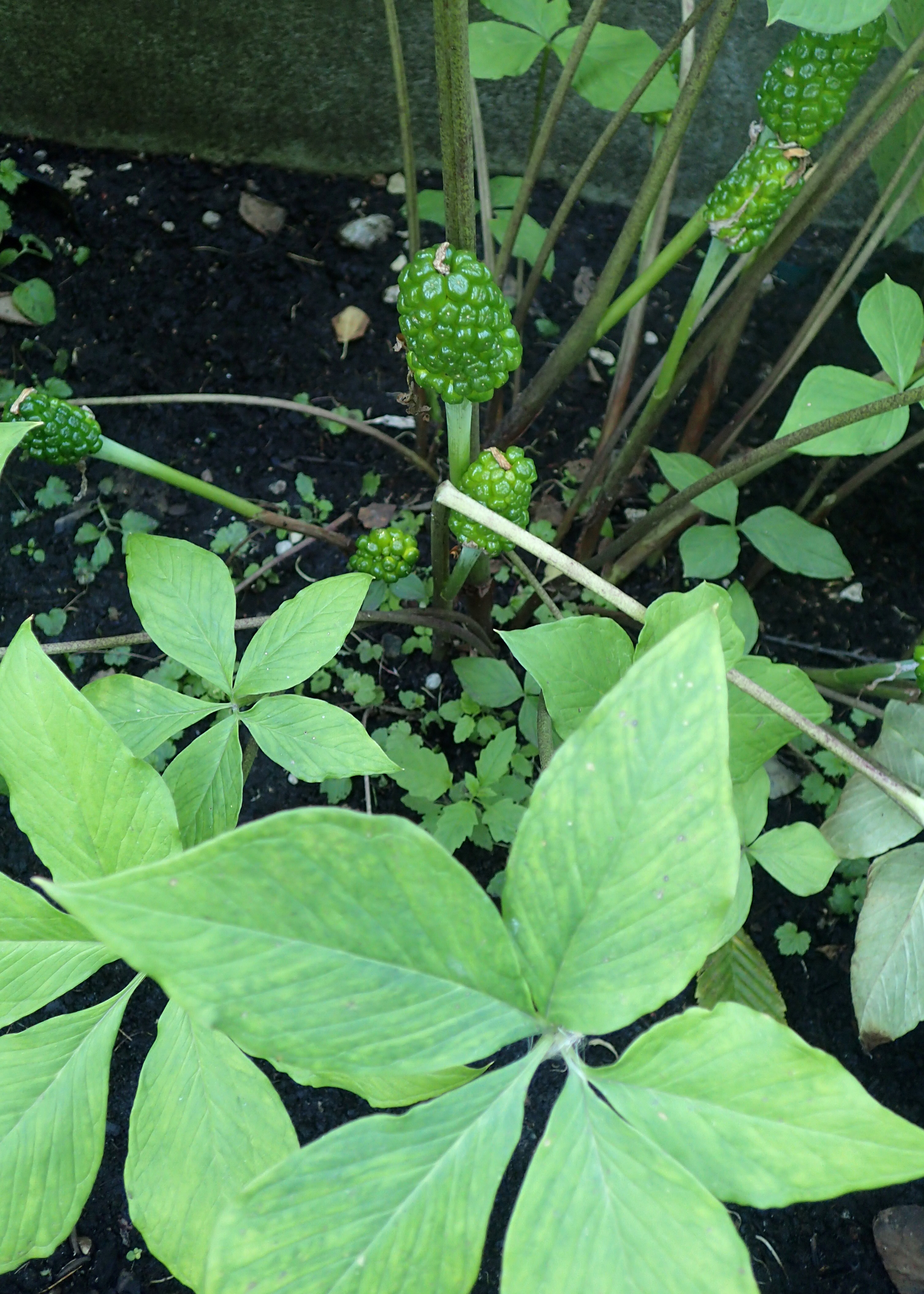 Arisaema amurense in Warsaw University Botanical Garden